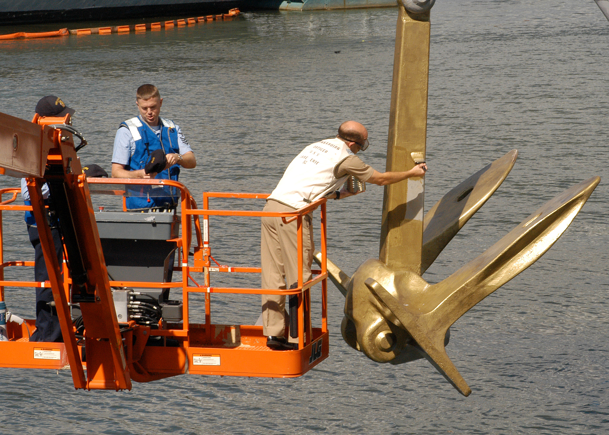 Pearl Harbor, Hawaii (Jan. 8, 2004) -- Capt. Scott T. Anhalt, Commanding Officer of USS Lake Erie (CG 70) applies gold paint to one of two Navy standard stockless anchors aboard USS Lake Erie, recently honored with a "2003 Golden Anchor Award" for retention excellence. U.S. Navy photo by Photographer's Mate 2nd Class Johnnie R. Robbins. (RELEASED)